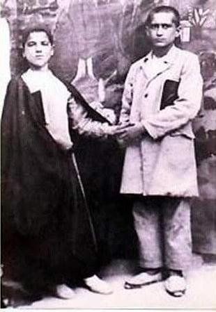 Mostafa Khomeini at childhood.